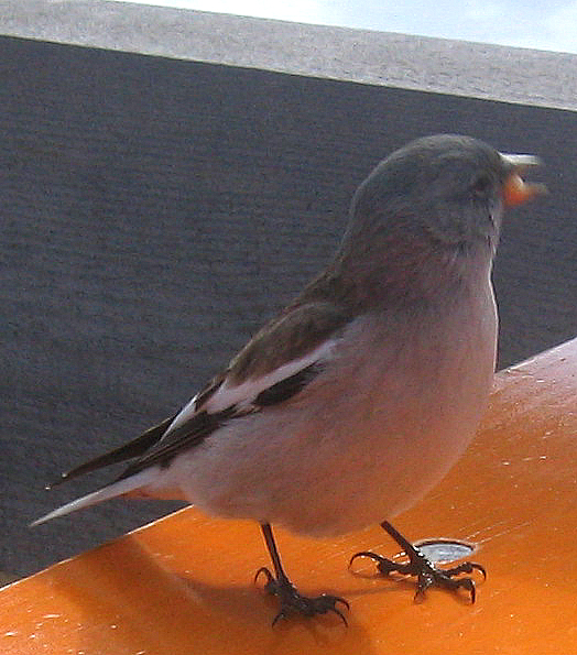 Montifringilla nivalis (snow finch), photographed in the Dolomites